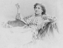 Production photograph, 1894, Avenue Theatre (London, England), Florence Farr as Louka in Arms and the Man.